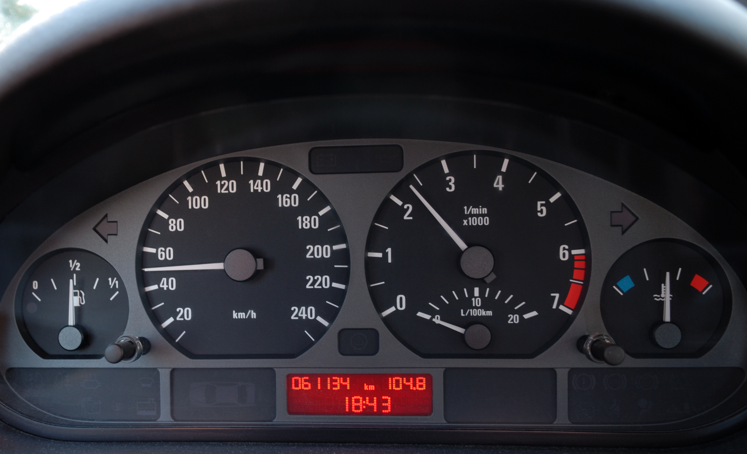 This image shows an instrument cluster of a BMW 320i E46 during a fuel cut-off.